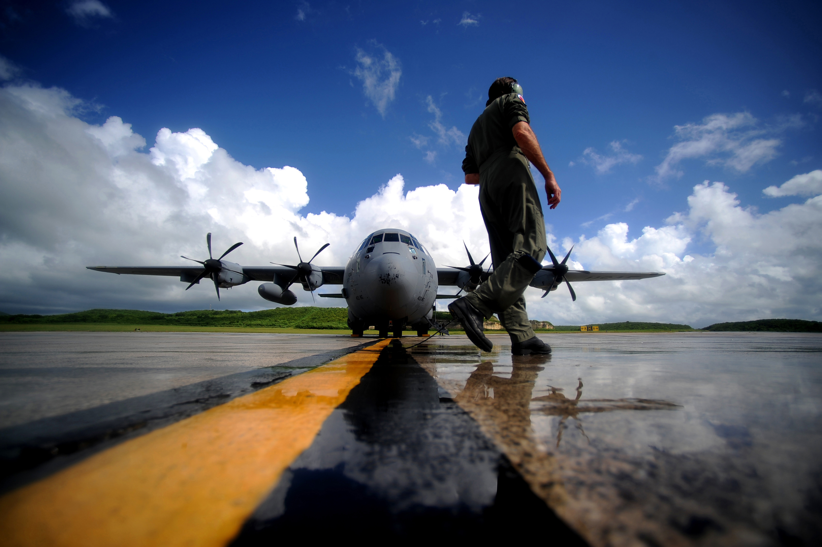 U.S. Air Force Master Sgt. Levi Denham, a WC-130J Hercules aircraft weather reconnaissance loadmaster assigned to the 53rd Reconnaissance Squadron, performs pre-engine start-up inspections in St. Croix, Virgin Islands, on Sept. 16, 2010. Known as Hurricane Hunters the 53rd Weather Reconnaissance Squadron's mission is to provide surveillance of tropical storms and hurricanes in the Atlantic Ocean, the Caribbean Sea, the Gulf of Mexico and the central Pacific Ocean for the National Hurricane Center in Miami.